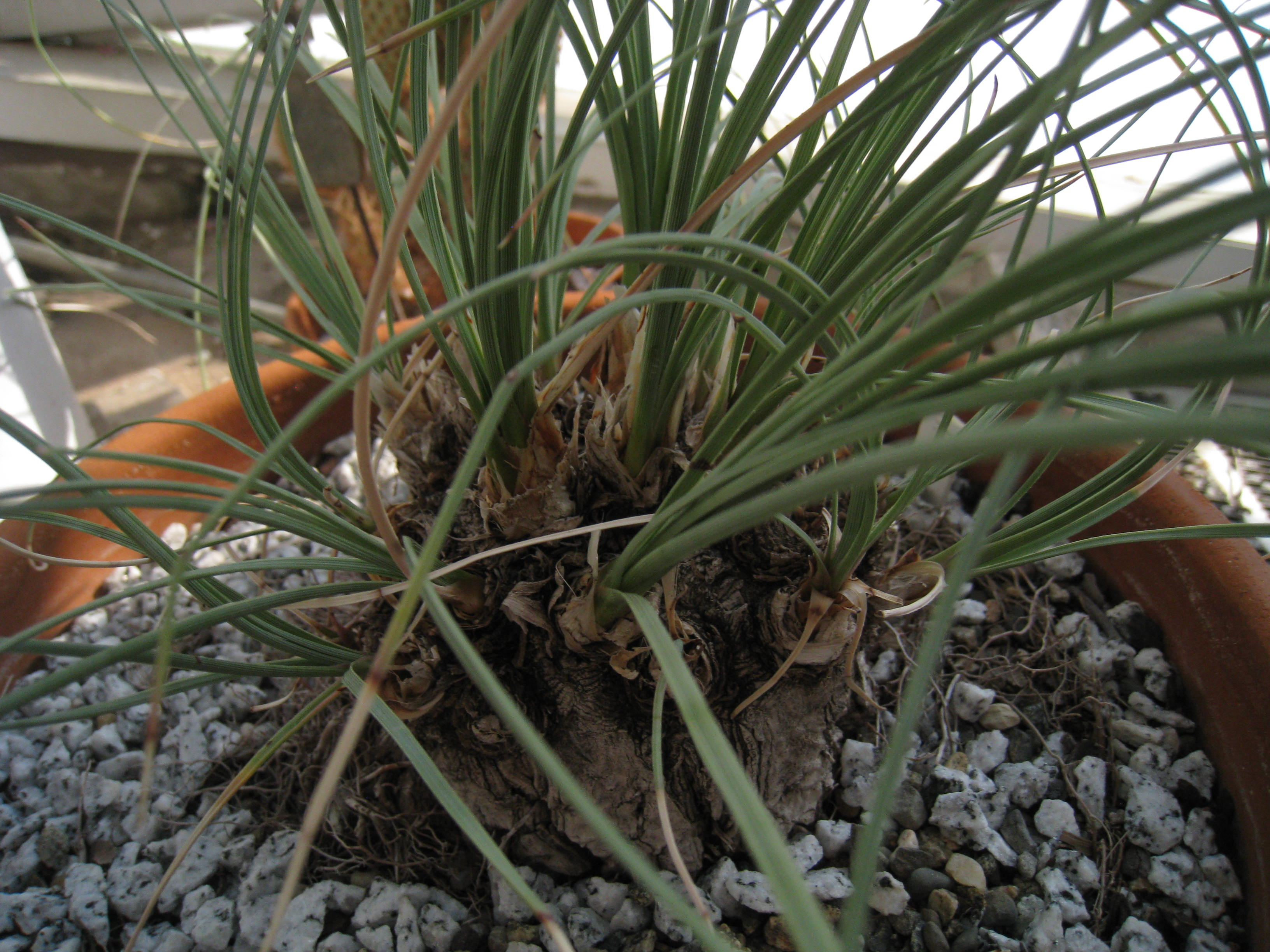 Calibanus hookeri in the Brooklyn Botanic Gardens